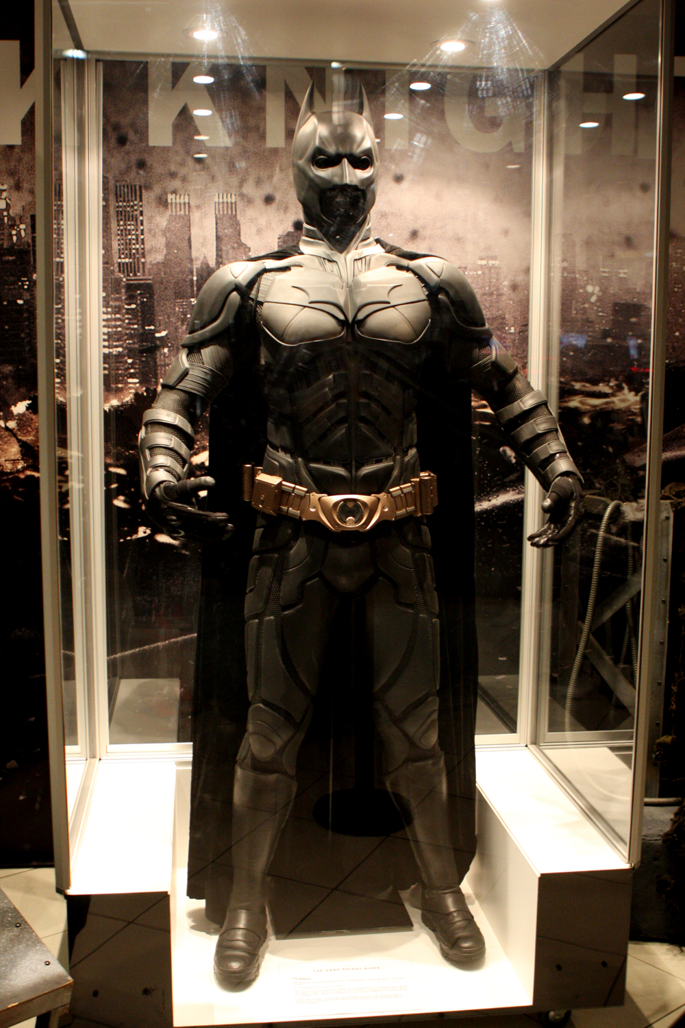 Batman's mannequin at The Dark Knight Rises premiere in Sydney.